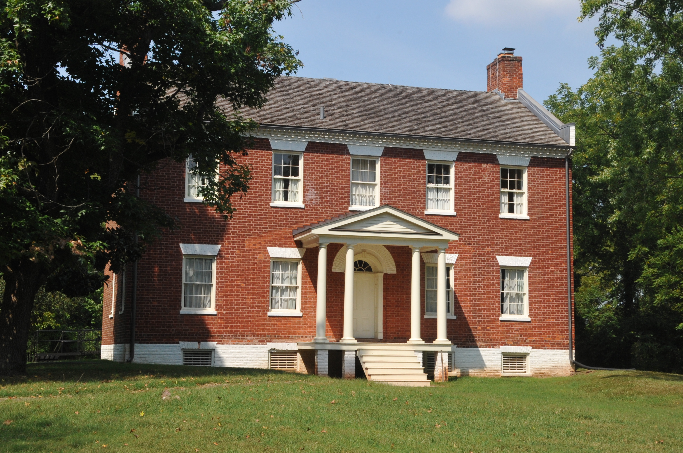 1829 BY W. J. WEIR ON LAND FORMERLY OWNED BY “KING” CARTER. BEAUREGARD’S HEADQUARTERS UNTIL AFTER THE FIRST BATTLE OF MANASSAS